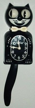 The Kit Cat Clock that I (Reaper X) own.